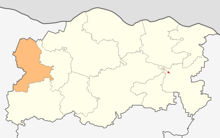 Map of Knezha municipality, Pleven Province